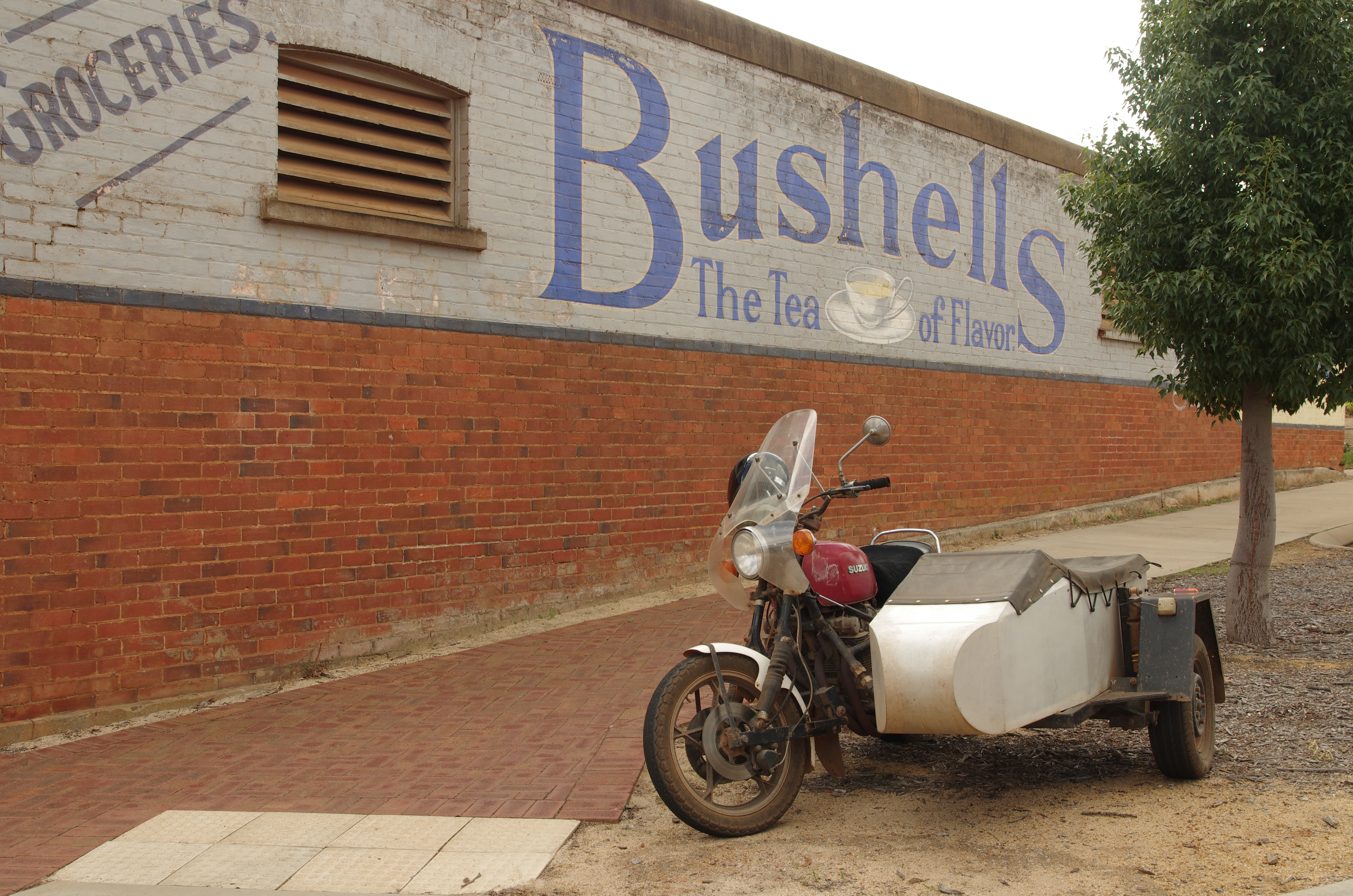 Moondyne Festival 2013, an annual festival in Toodyay Western Australia where residents dress in period cotumes and perform street theatre in relation to events surrounding the life of Moondyne Joe festival attract a lot people from Perth for the day